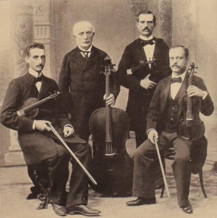 Bologna string quartet: Federico Sarti (1st violin), Francesco Serato (cello), Adolfo Massarenti (2nd violin), Angelo Consolini (viola)